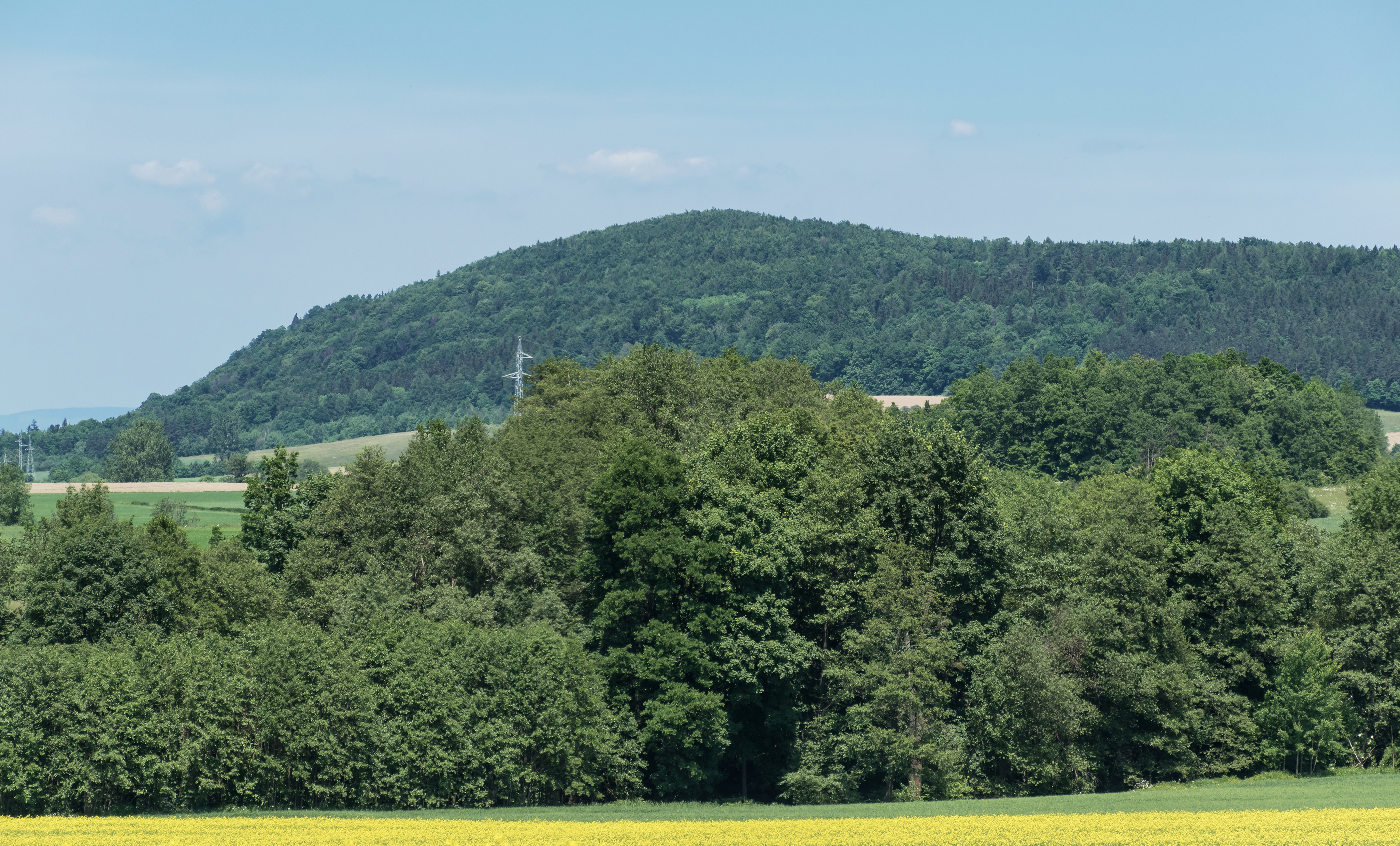 Dębowa, Krowiarki, Sudetes